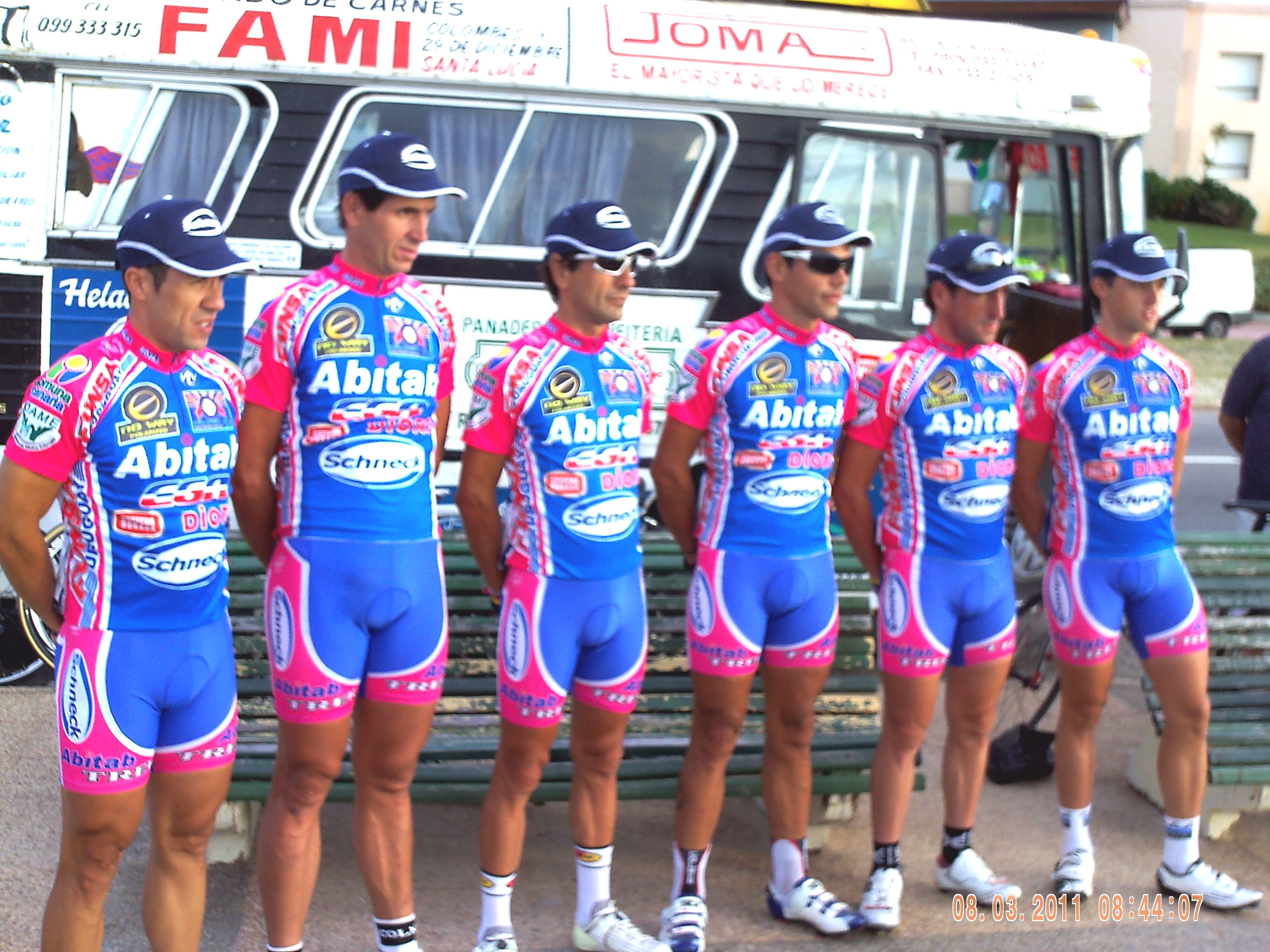 Team Alas Rojas de Santa Lucía before the start of Rutas de américa 2011